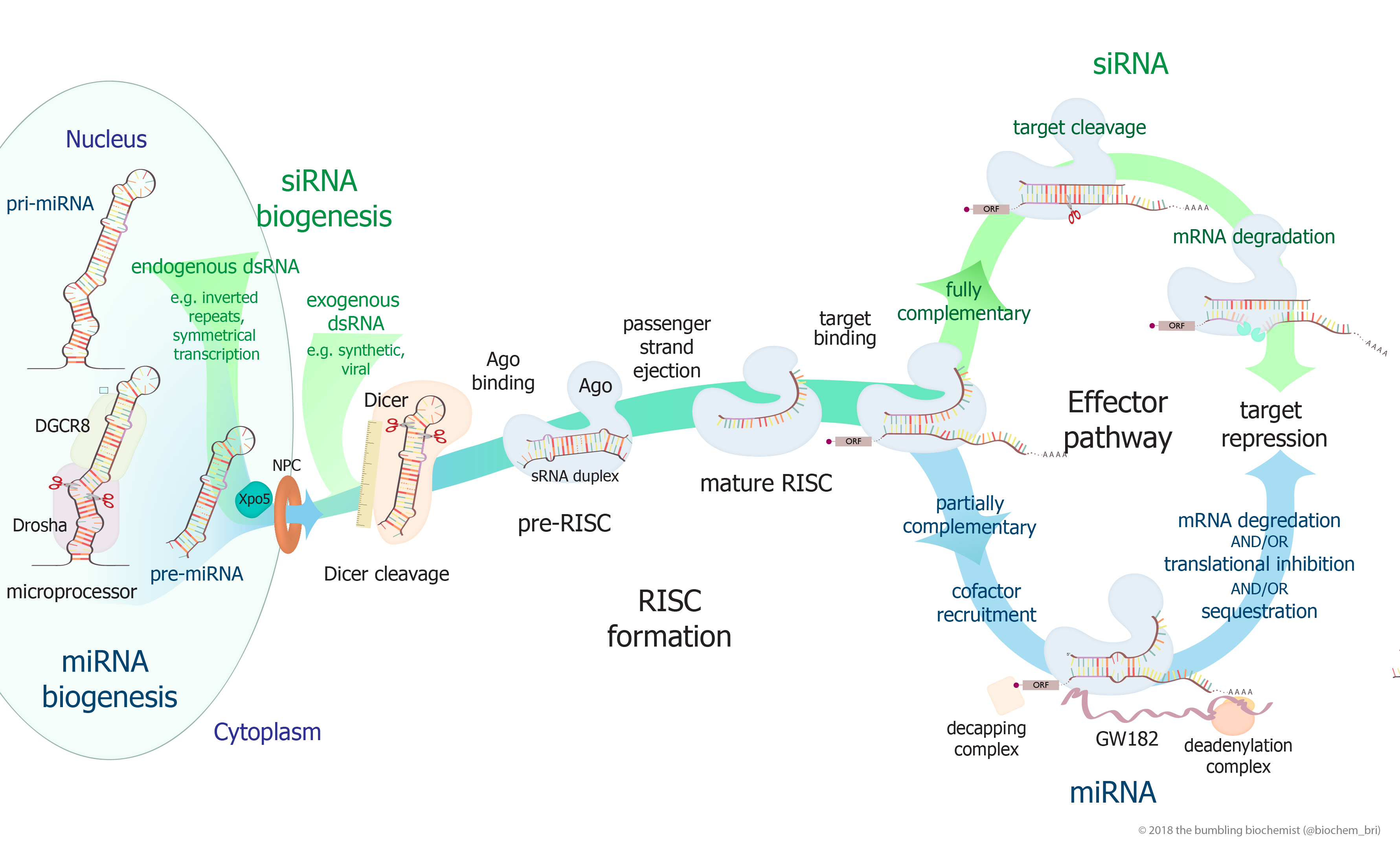 an infographic describing microRNA biogenesis and the RNA interference pathway